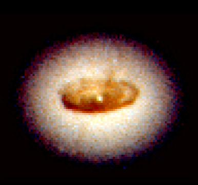 Ring Around a Suspected Black Hole in Galaxy NGC 4261.